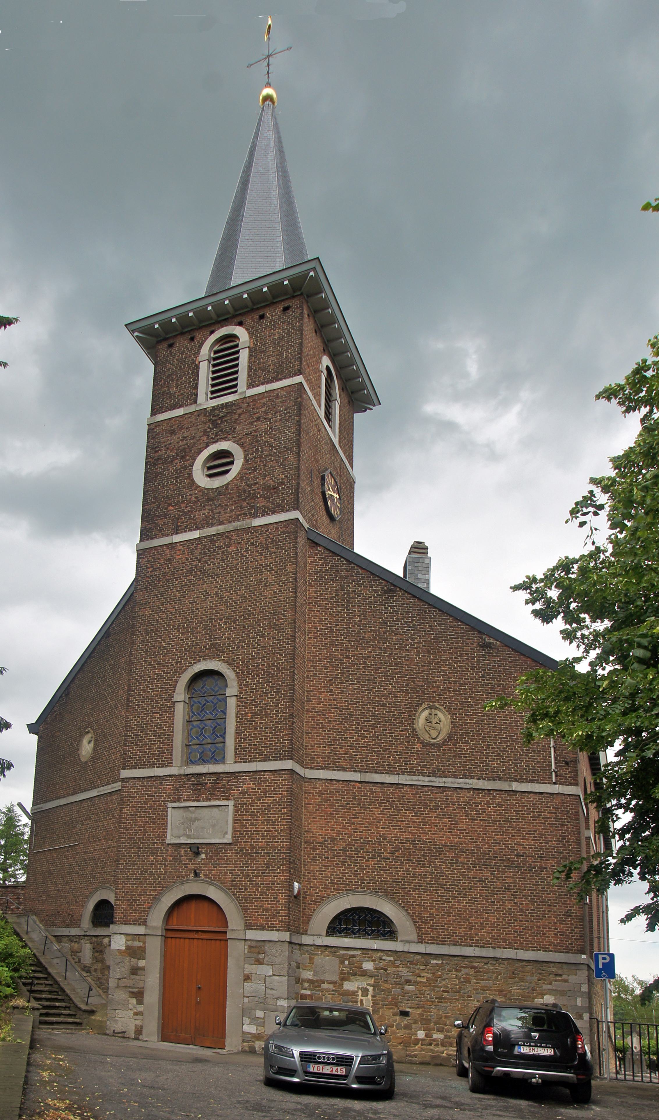 Blegny (Saint-Remy), Belgium: Saint Remigius Church